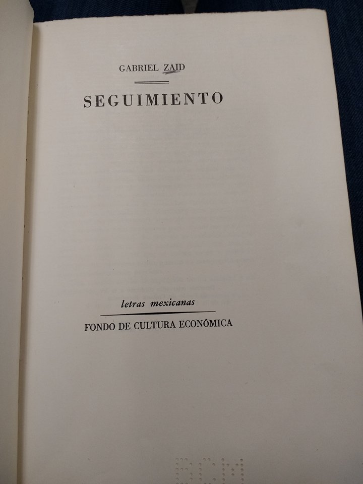 Edición príncipe de "Seguimiento" de Gabriel Zaid; 1964.